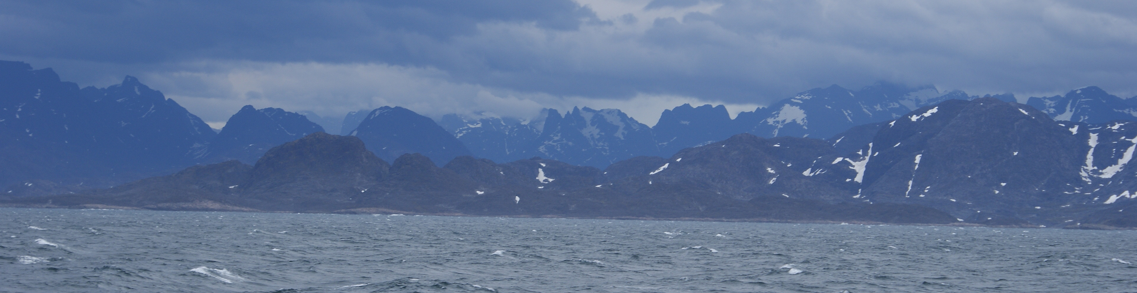 The northern end of Simiutaq Island in the mouth of Kangerlussuaq Fjord, Greenland. Photographed in very bad weather from the Sarfaq Ittuk ship of Arctic Umiaq Line during the Sisimiut-Kangaamiut voyage alongside the coast of Davis Strait.